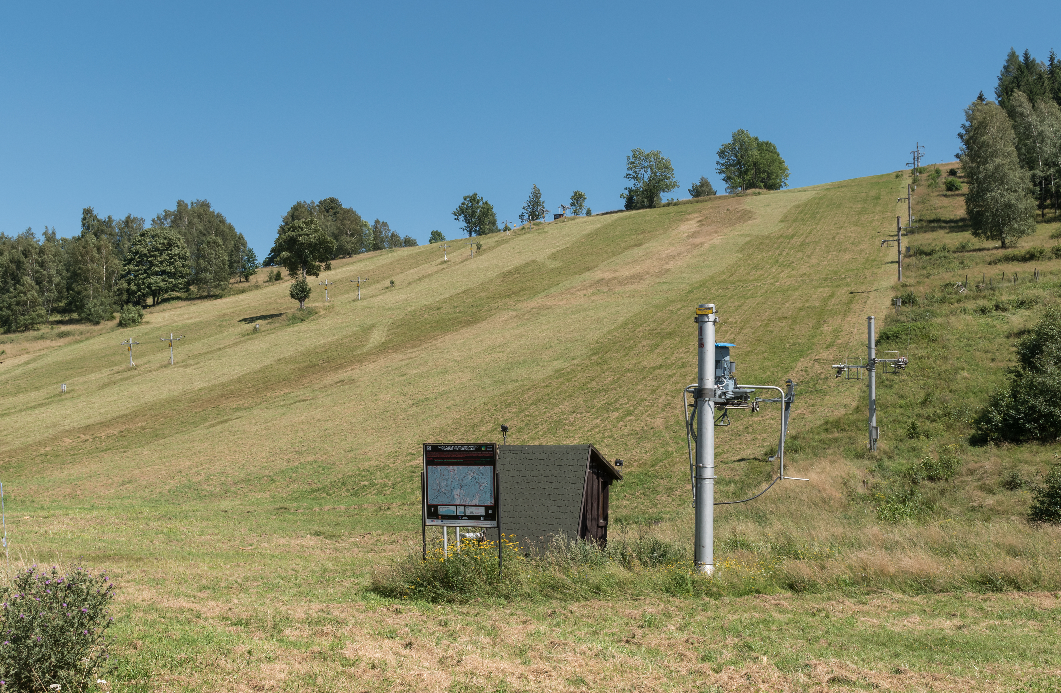 Ski lift in Kamienica